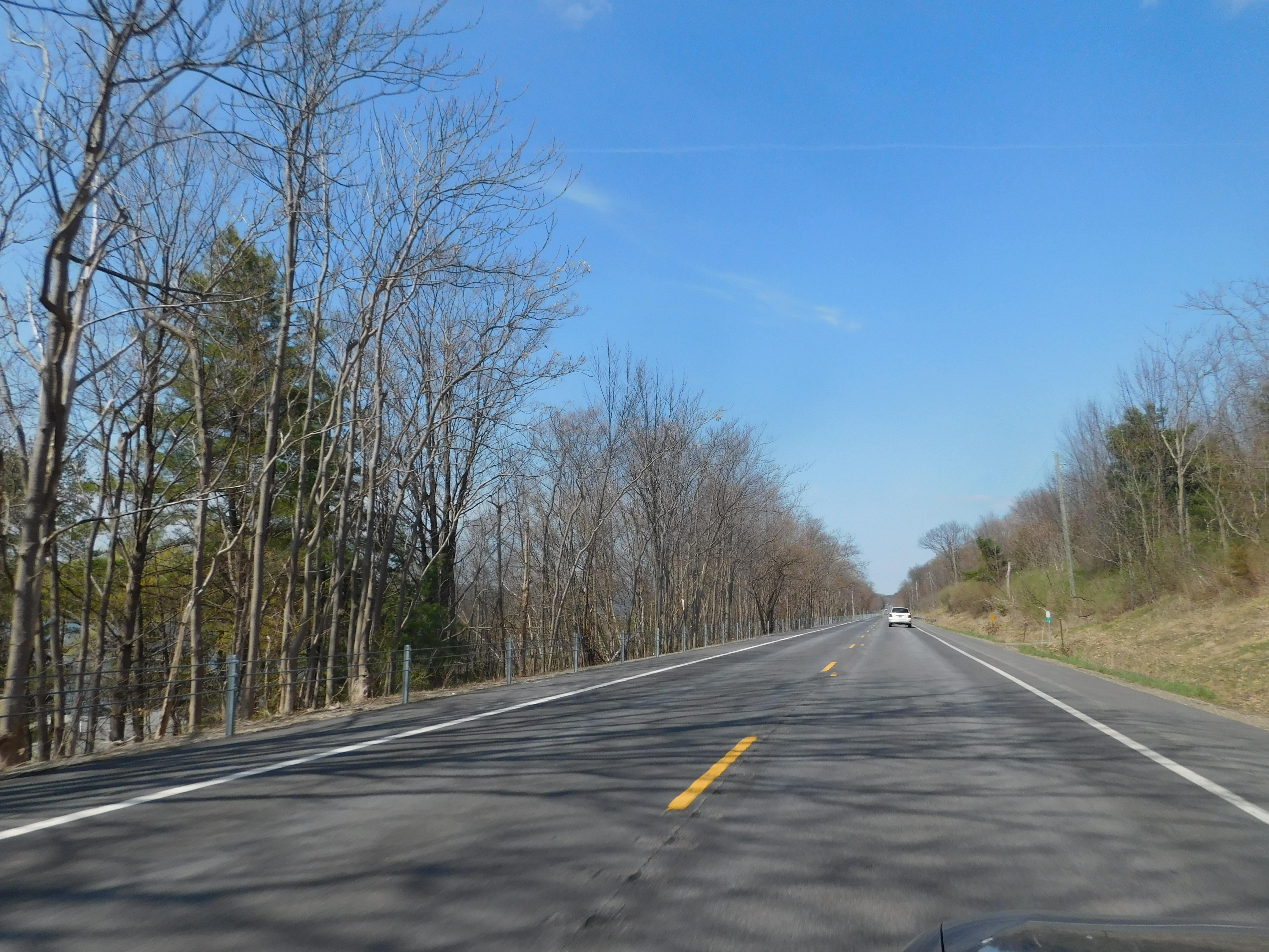 New York State Route 54 northbound in Milo, New York.